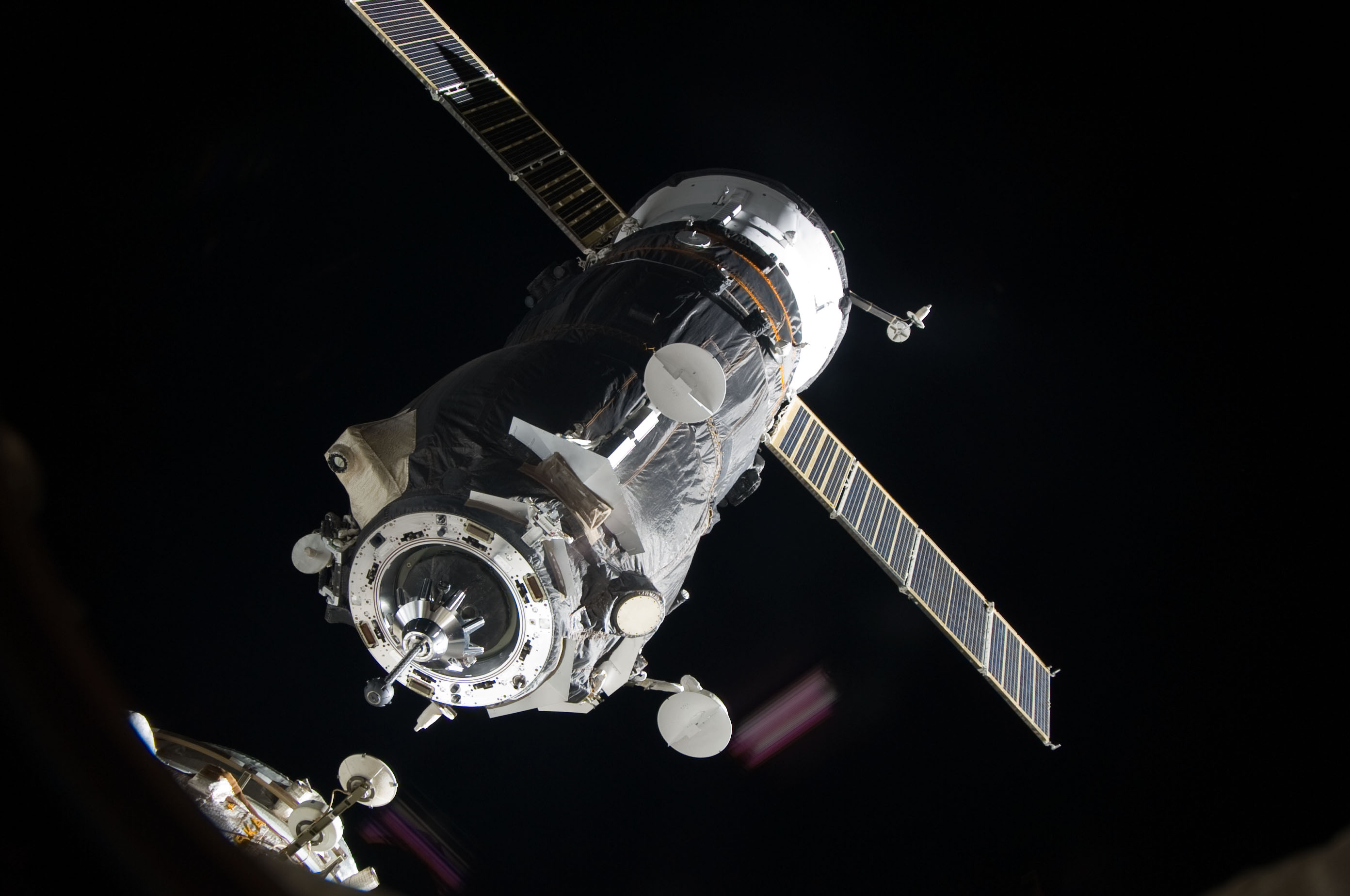 An unpiloted ISS Progress resupply vehicle approaches the International Space Station, bringing 2.6 tons of food, fuel, oxygen, propellant and supplies for the Expedition 23 crew members aboard the station. Progress 37 docked to the Pirs Docking Compartment at 2:30 p.m. (EDT) on May 1, 2010, after a three-day flight from the Baikonur Cosmodrome in Kazakhstan. The docking was conducted by Russian cosmonaut Oleg Kotov, commander, in manual control through the TORU (telerobotically operated) rendezvous system due to a jet failure on the Progress that forced a shutdown of the Kurs automated rendezvous system.